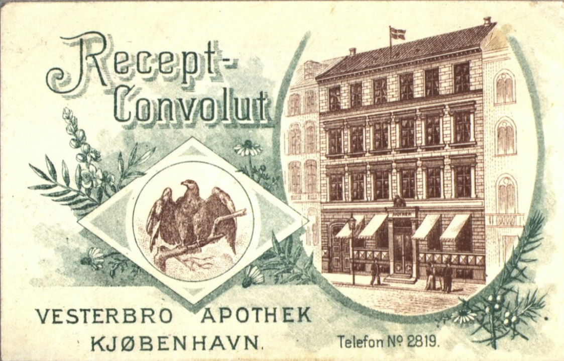 Old perscription enveloppe from Vesterbro Apotek at Vesterbrogade 72 in Copenhagen, Denmark